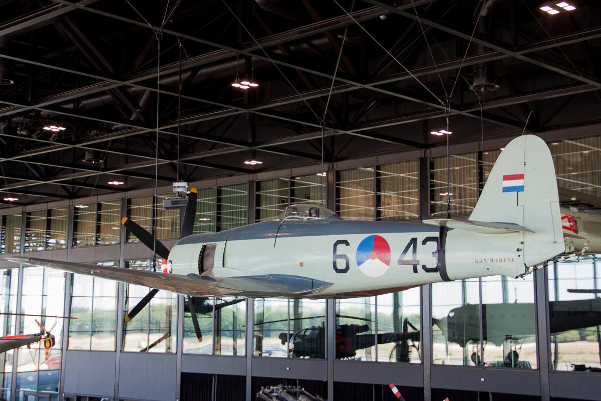 This Hawker Sea Fury FB.11 used to fly at the Royal Dutch Navy and is now stored at the Dutch National Military Museum at Soesterberg